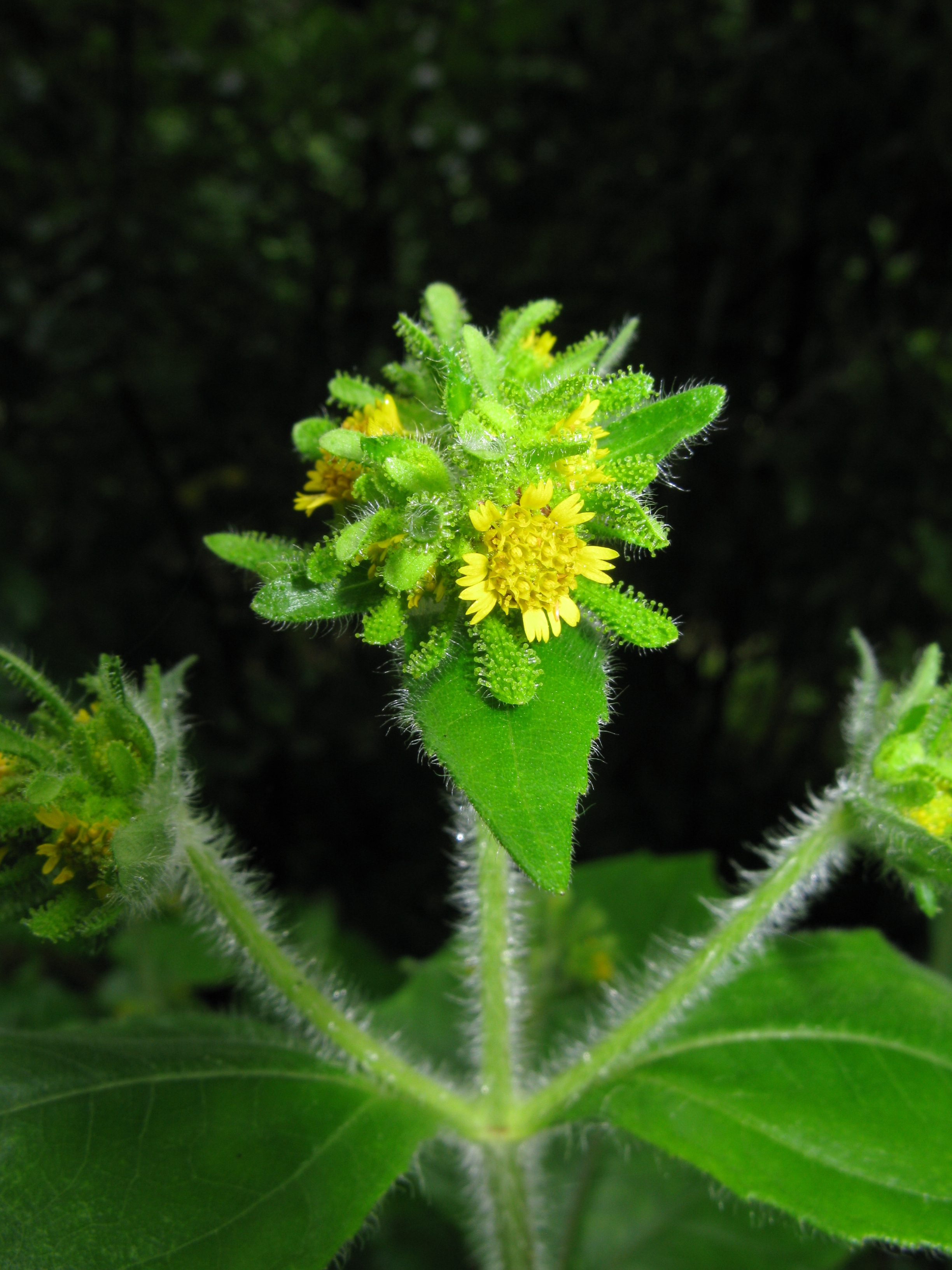 Sigesbeckia pubescens, Aizu are, Fukushima pref., Japan